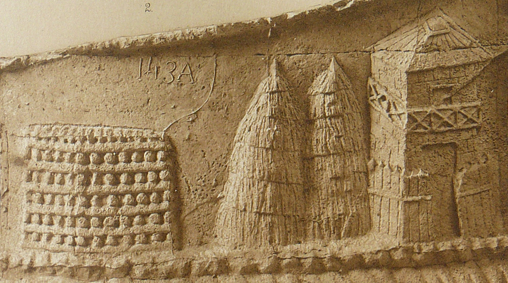 The watch on the Danube (scene I)